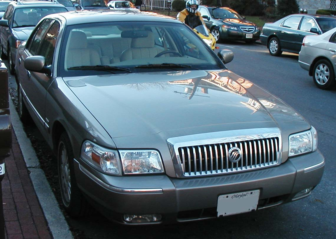 2006-2007 Mercury Grand Marquis photographed in USA.